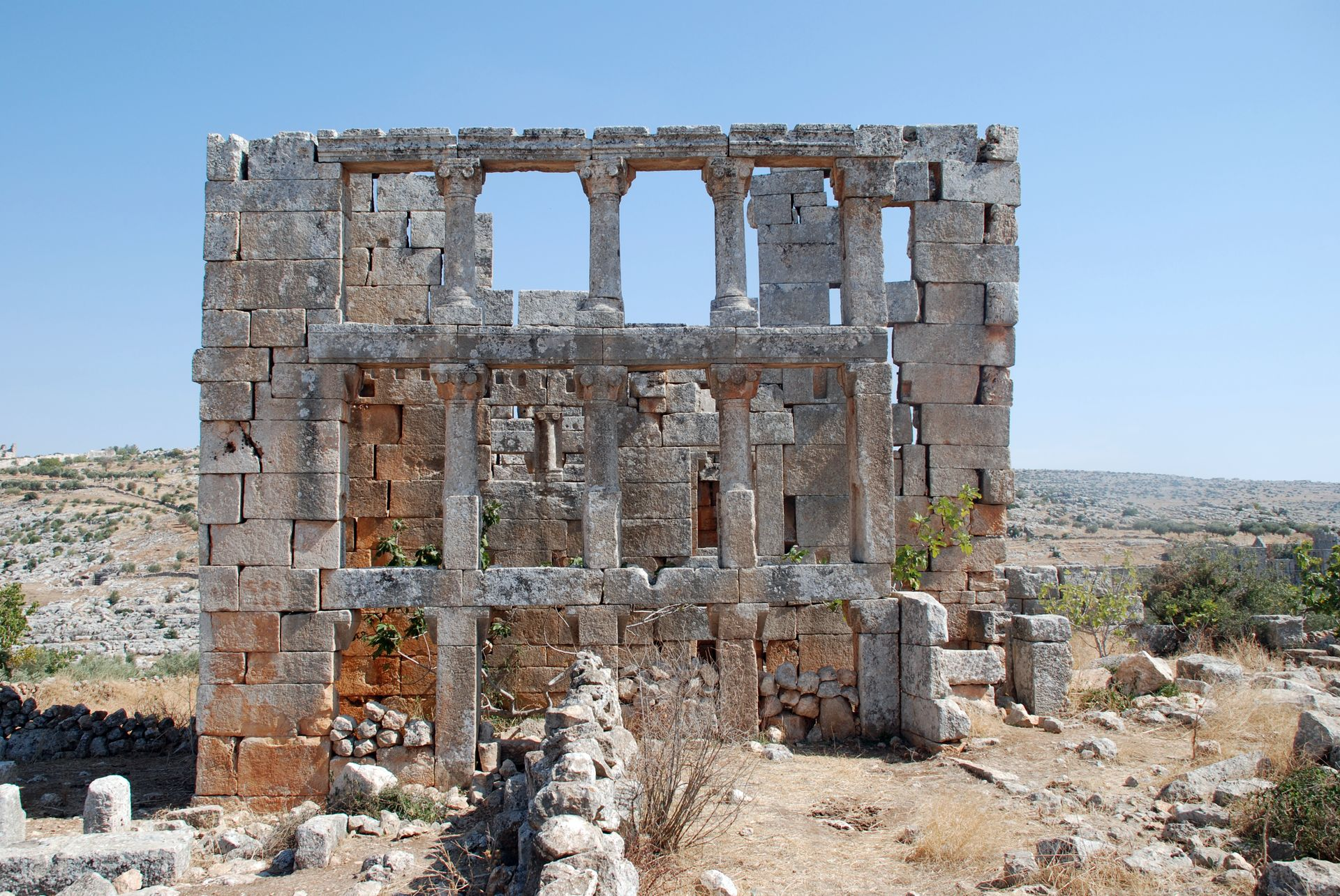 Deir Seman, near Church of Saint Simeon Stylites, Syria, residence